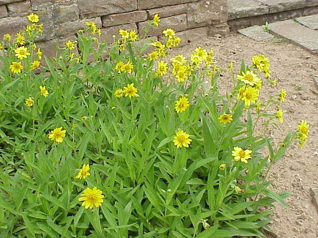 Species: Arnica longifolia Family: Asteraceae Image No. 2